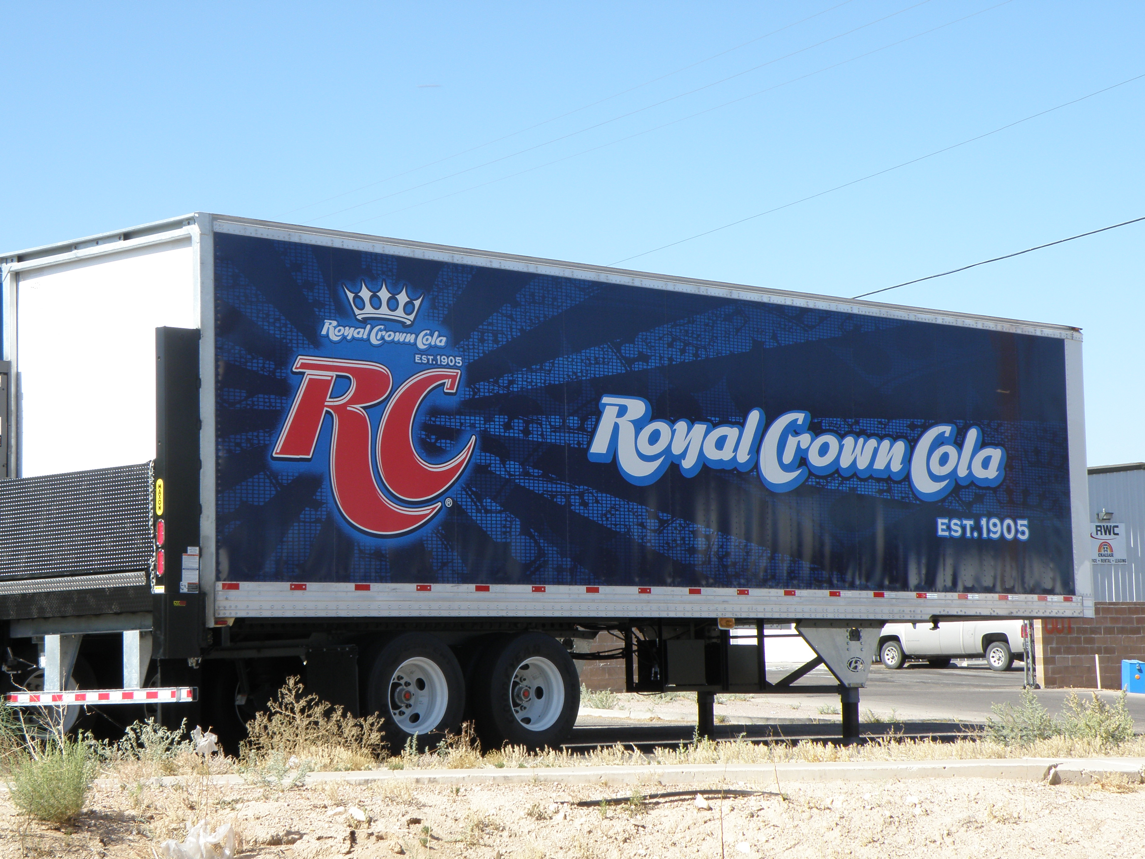 Royal Crown Cola at 1501 S Cherry Ave, Tucson, AZ 85713